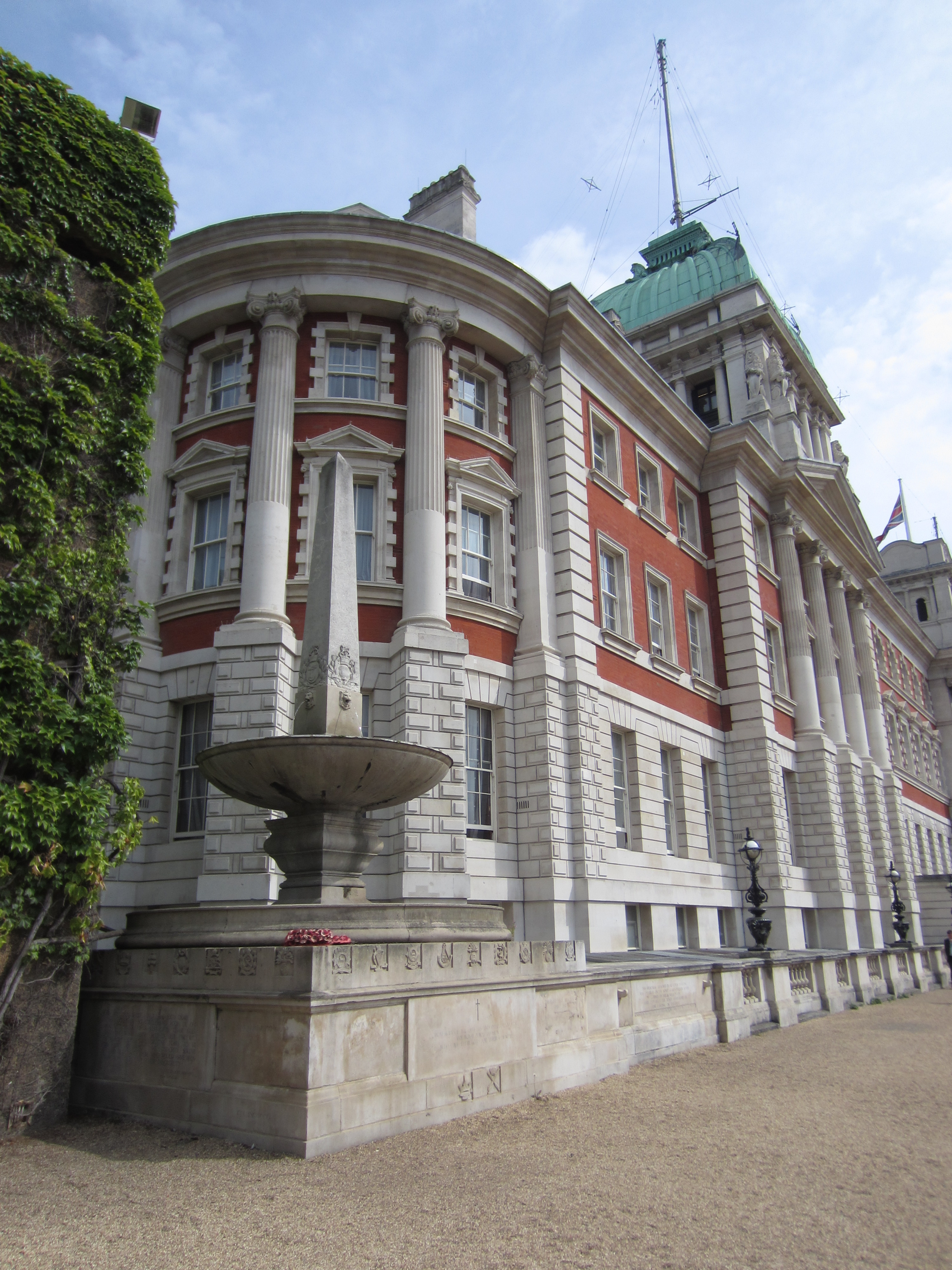 London, United Kingdom (August 2014)